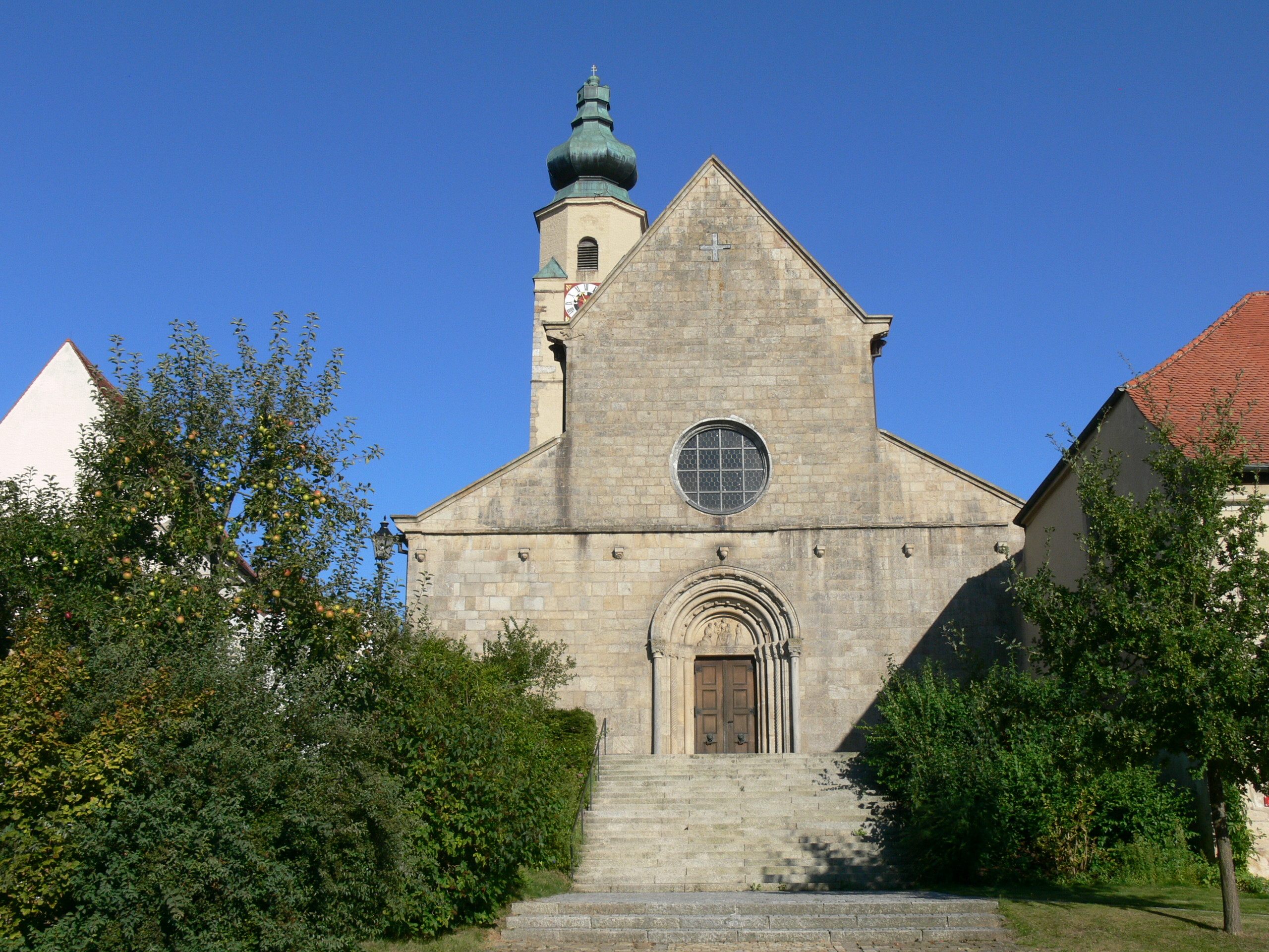 Monastery church of Mary Assumption in Windberg ( Lower Bavaria ). Facade.